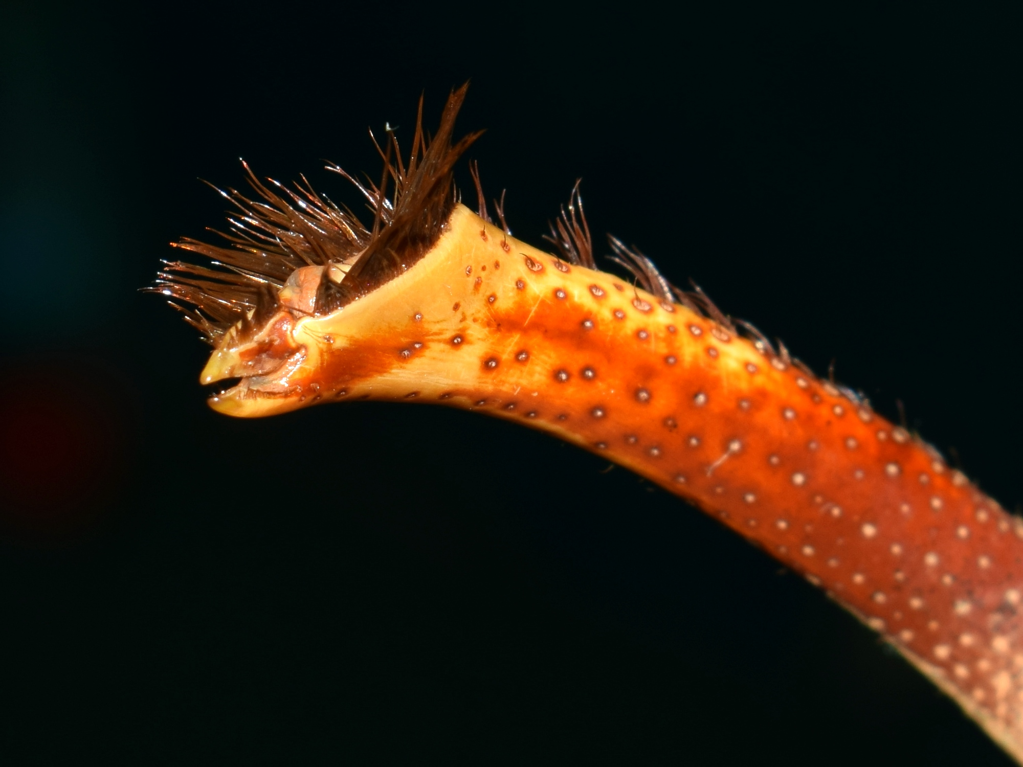 Indian Ocean spear lobster, Linuparus somniosus. Female, 134 mm CL (carapace length). From Palabuhanratu Fish Market, West Java, Indonesia. False pincher at the tip of right 5th pereiopod, inner view.